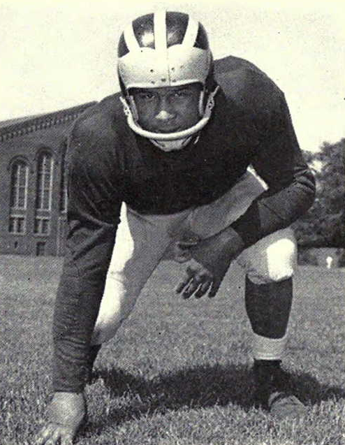 Photograph of Donald R. Deskins This work is in the public domain because it was published in the United States between 1923 and 1963 and although there may or may not have been a copyright notice, the copyright was not renewed. Unless its author has been dead for the required period, it is copyrighted in the countries or areas that do not apply the rule of the shorter term for US works, such as Canada (50 pma), Mainland China (50 pma, not Hong Kong or Macao), Germany (70 pma), Mexico (100 pma), Switzerland (70 pma), and other countries with individual treaties. See Commons:Hirtle chart for further explanation. This work is in the public domain because it was published in the United States between 1923 and 1977 and without a copyright notice. Unless its author has been dead for several years, it is copyrighted in jurisdictions that do not apply the rule of the shorter term for US works, such as Canada (50 p.m.a.), Mainland China (50 p.m.a., not Hong Kong or Macao), Germany (70 p.m.a.), Mexico (100 p.m.a.), Switzerland (70 p.m.a.), and other countries with individual treaties. See this page for further explanation.